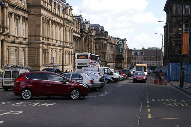 Chambers Street, Edinburgh